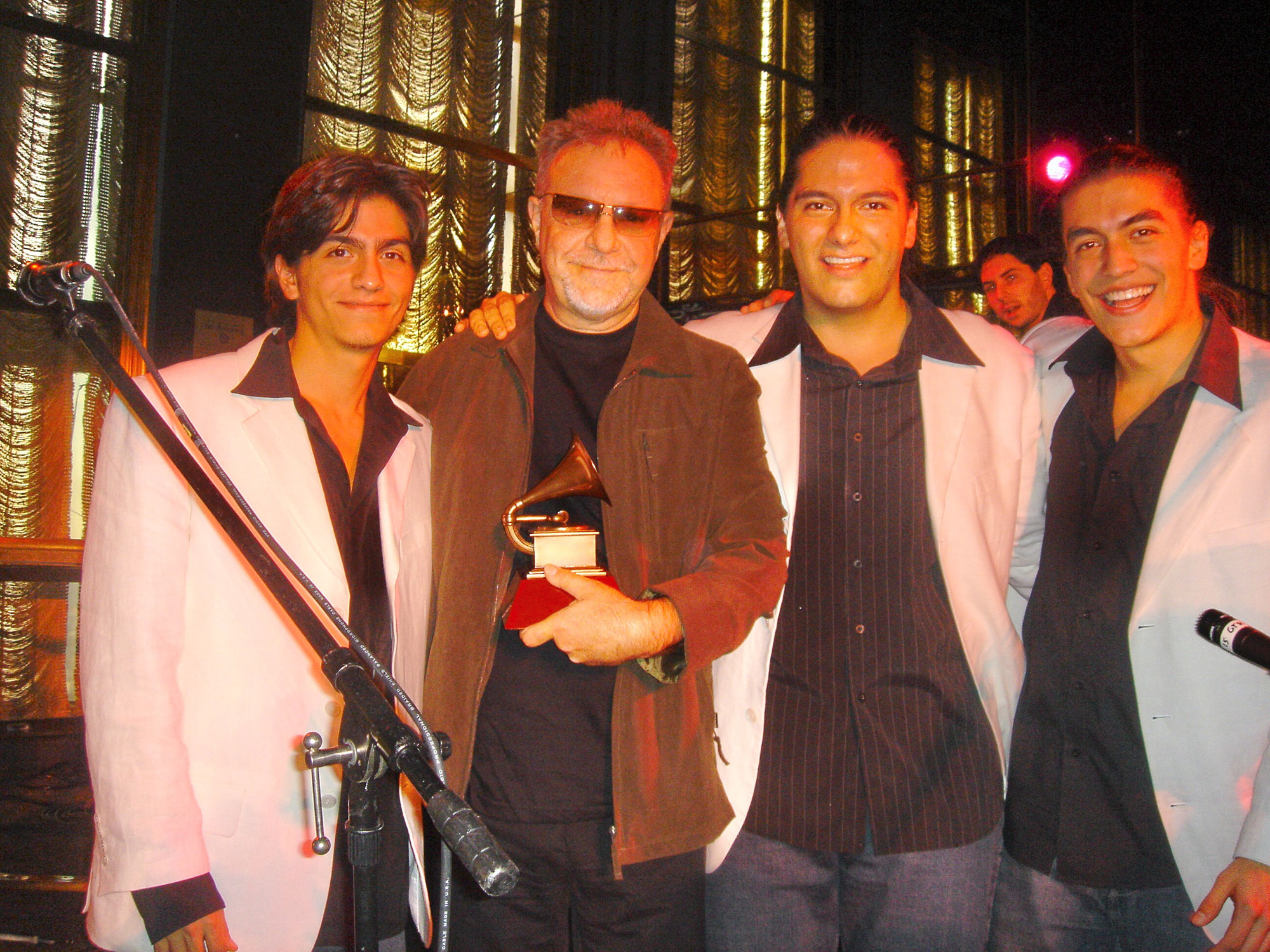 The Villalobos Brothers posing with Leon Gieco after the Latin Grammys Awards in New York City